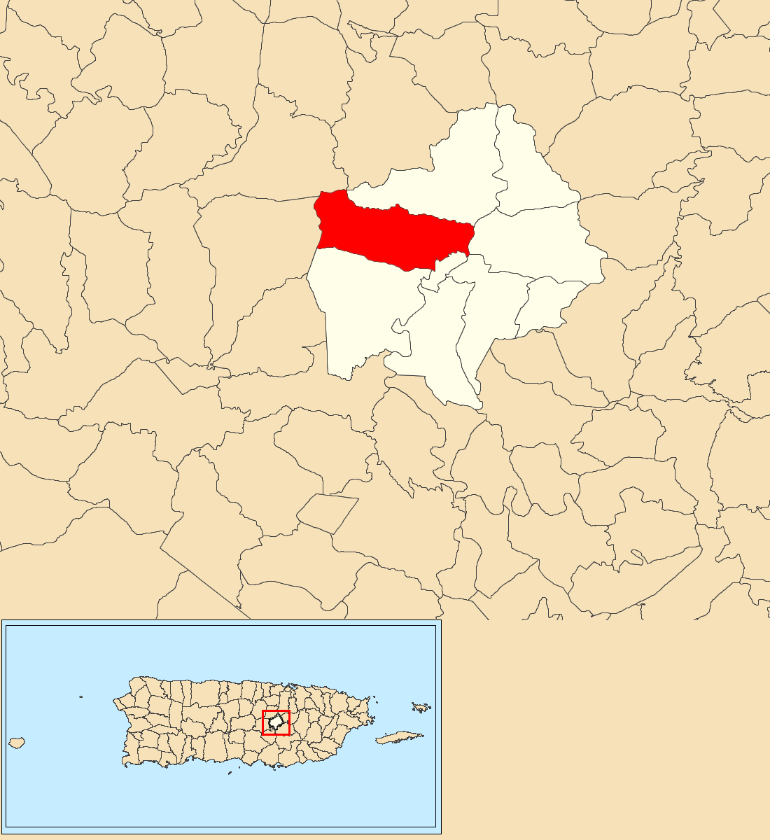 Palomas, Comerío, Puerto Rico locator map